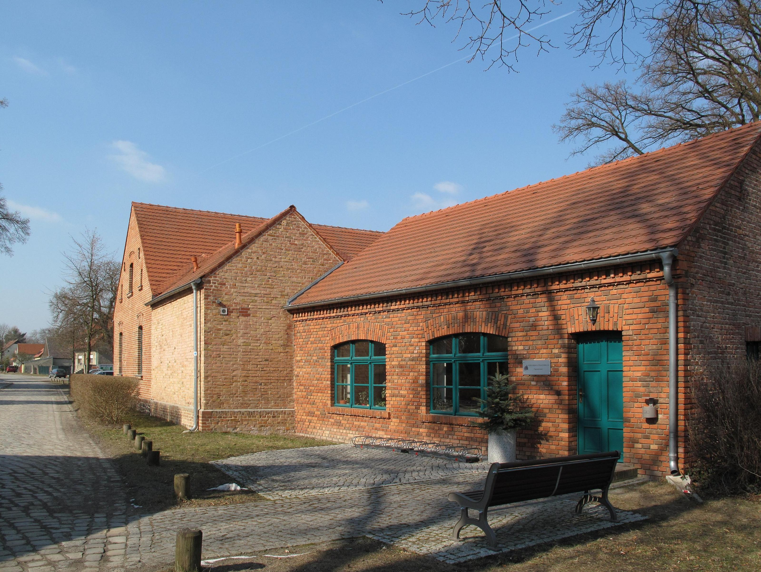 Village community house in Wildenbruch, opened in 2005 in the redeveloped former school building. Wildenbruch is a part of Michendorf in the district Potsdam-Mittelmark, state Brandenburg, Germany.